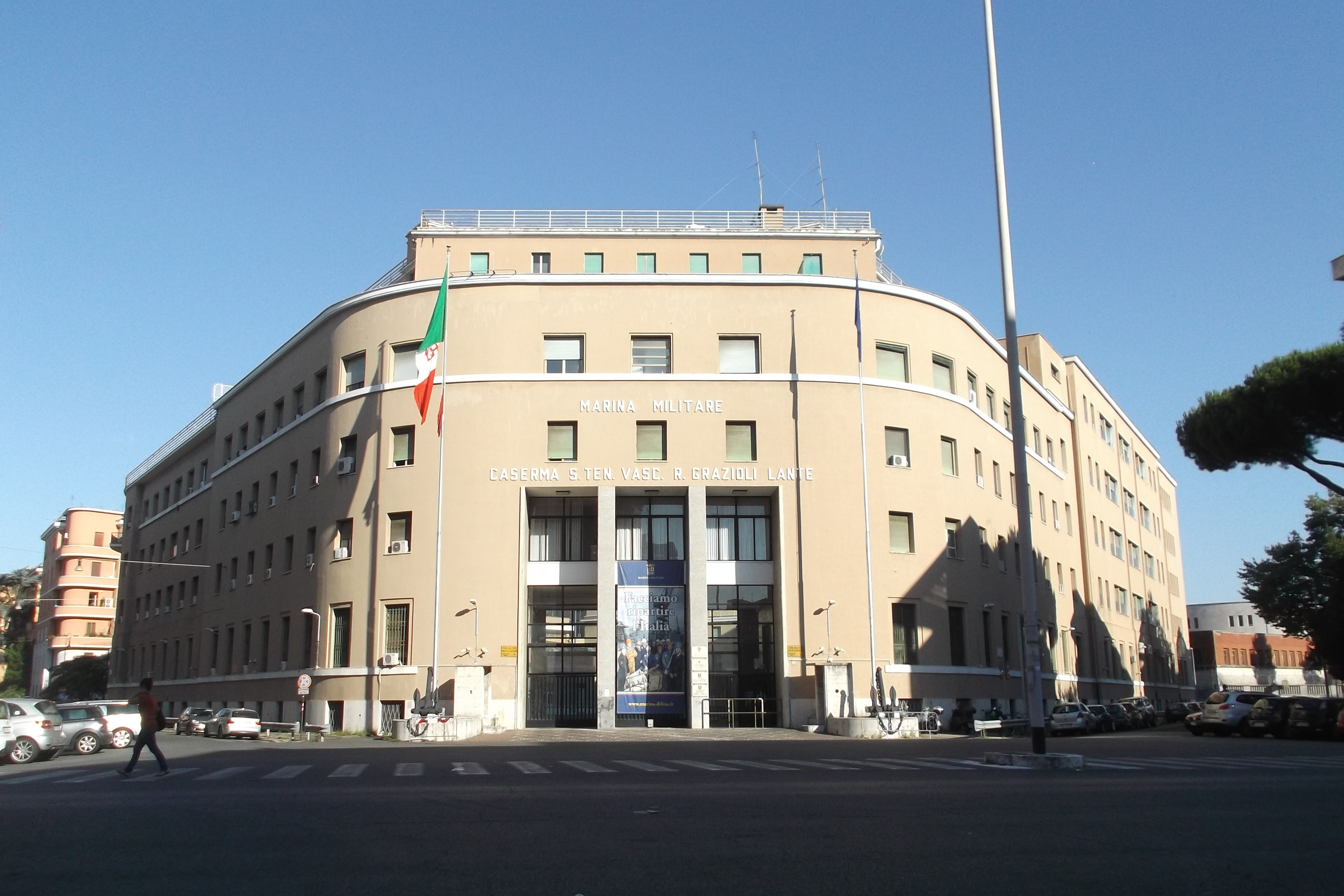 Caserma 1st Lieutenant Grazioli Lante, a building serving as barracks for troops of Marina Militare (Italian Navy) in Rome